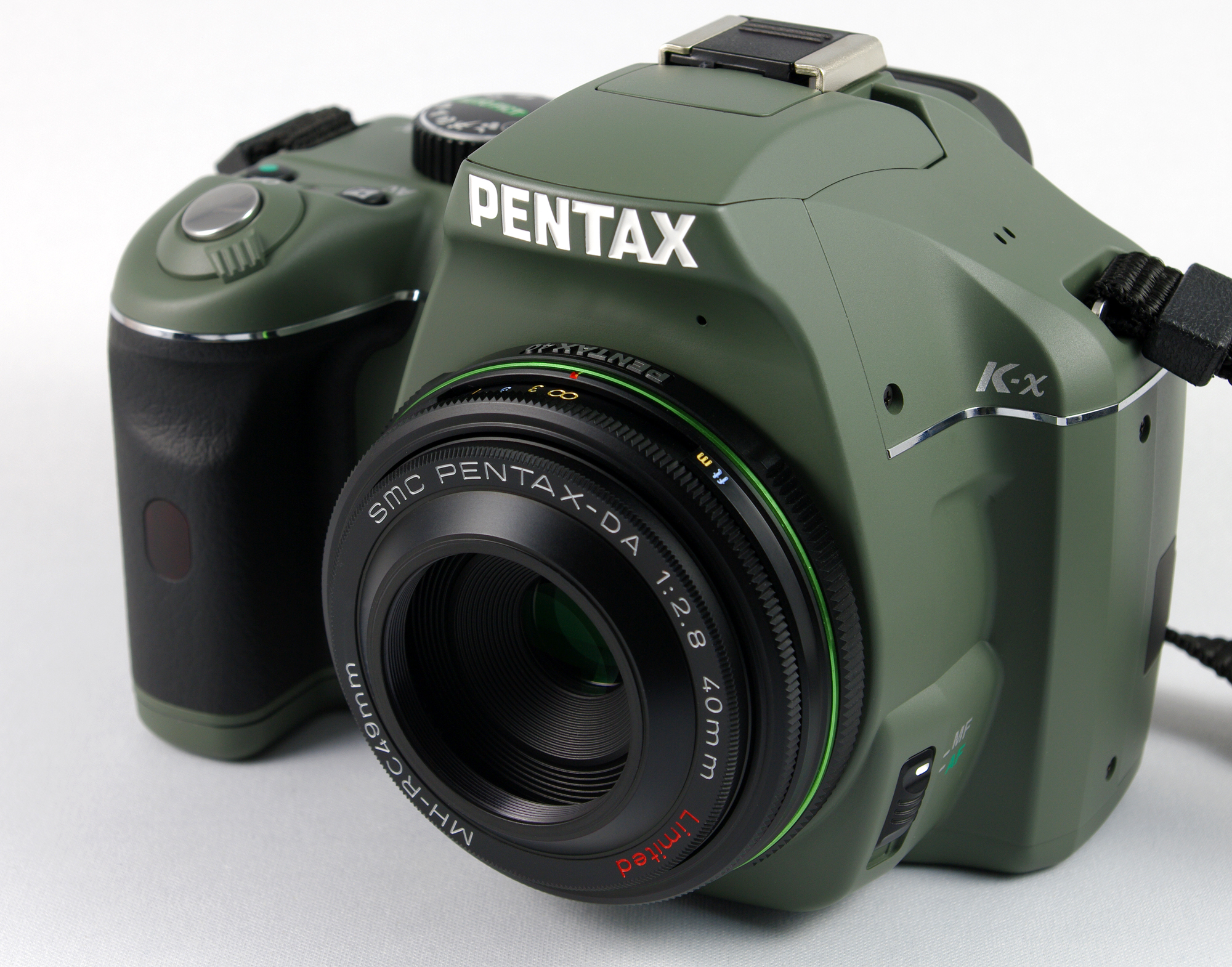 The digital SLR camera Pentax K-x, olive-green body and a mounted prime lens smc DA 40 mm / 2.8 Limited.